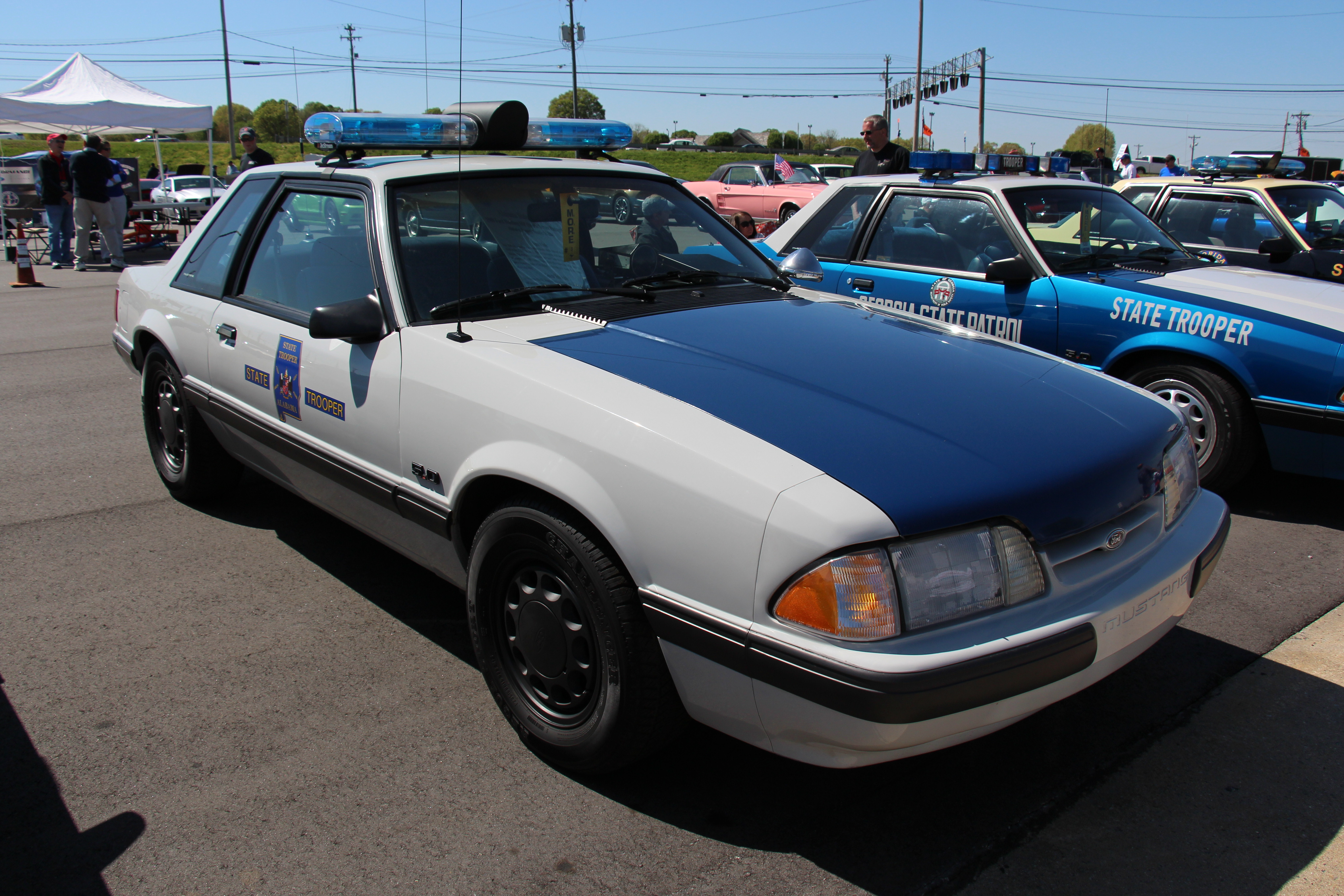 Alabama State Police. The 3rd generation Fox body Mustang was made from 1979-1993, a minor update to front and rear in 1983, and again in 1985, then a more substantial update in 1987 saw the grille and quad headlights replaced by modern single headlights and the no grille aero look. Only models available were the LX and GT and just the 2.3 litre 4 and 5.0 V8, still coupe, hatchback and convertible. From the new 1987 look until the end for the Fox body Mustangs in 1993 there were few changes. The Ford Mustang SSP (Special Service Package) was a lightweight police car package on the Mustang produced between 1982-1993. They got the 210hp 5.0 V8 in a basic Coupe body. Photographed at the 50th Anniversary of the Mustang celebrations at the Charlotte Motor Speedway, April 2014